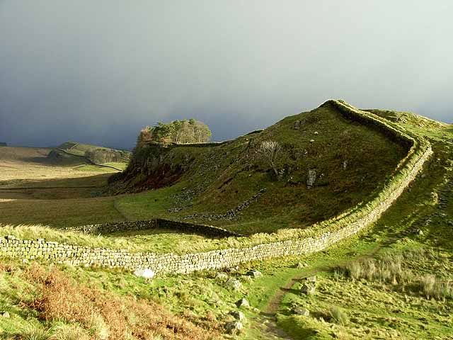 Hadrian's Wall and Housesteads Crags In squally November weather. From "the gap with no name", Hadrian's Wall National Trail climbs on to Housesteads Crags. Housesteads Fort lies just beyond the wood.